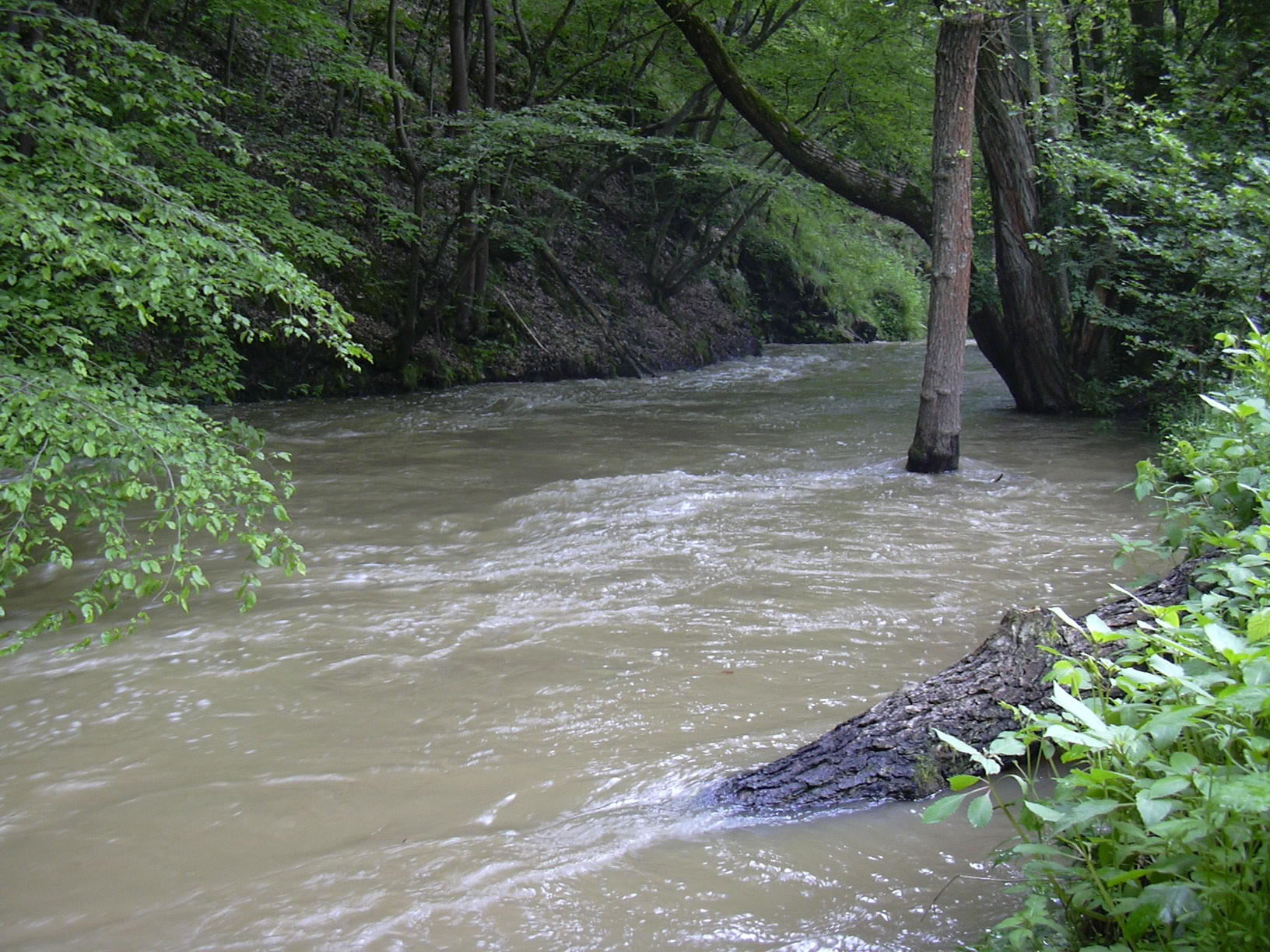 River Kocába near Masečín, Czech Republic